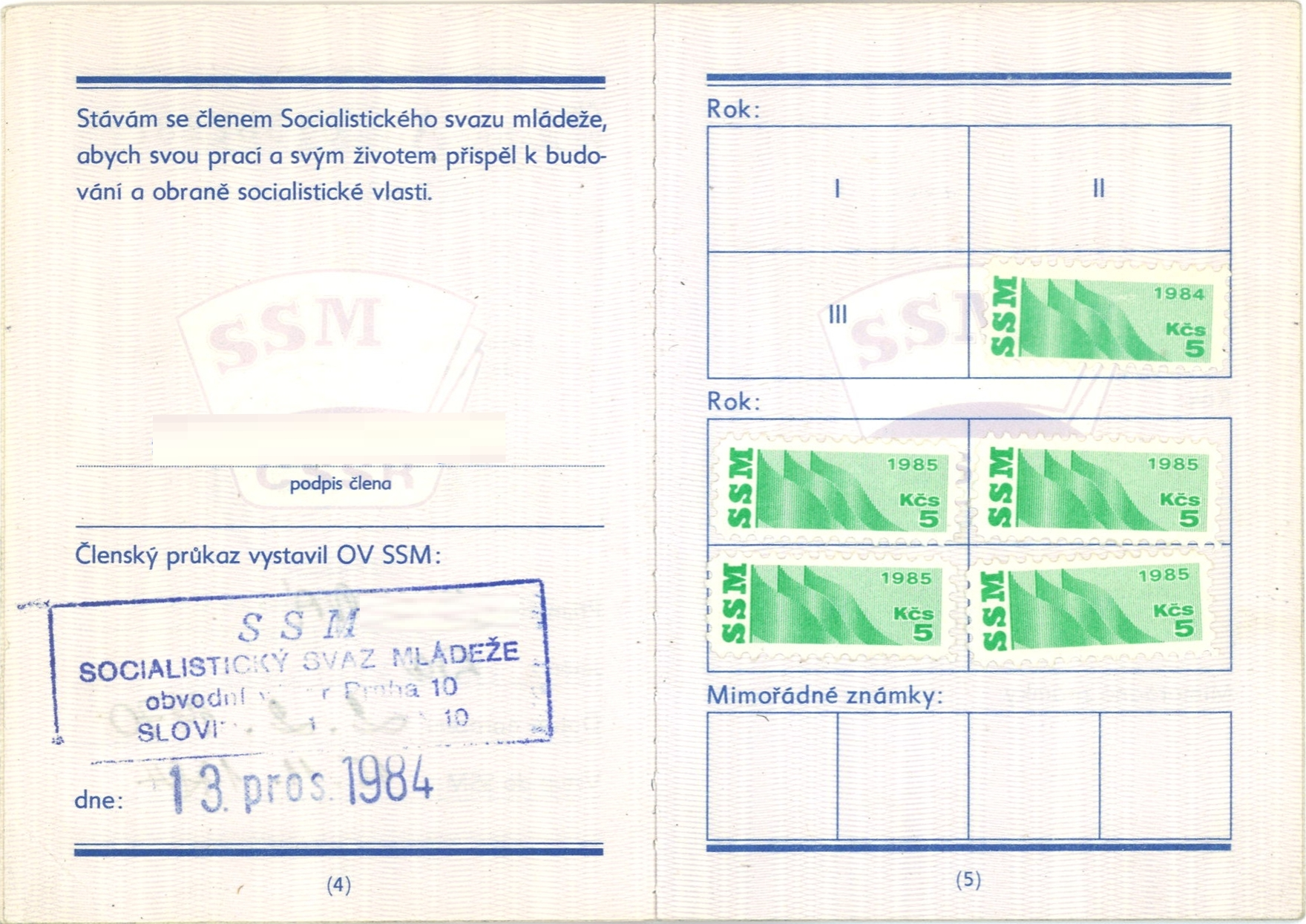 Member's card of Socialist Youth Union - inner pages.jpg